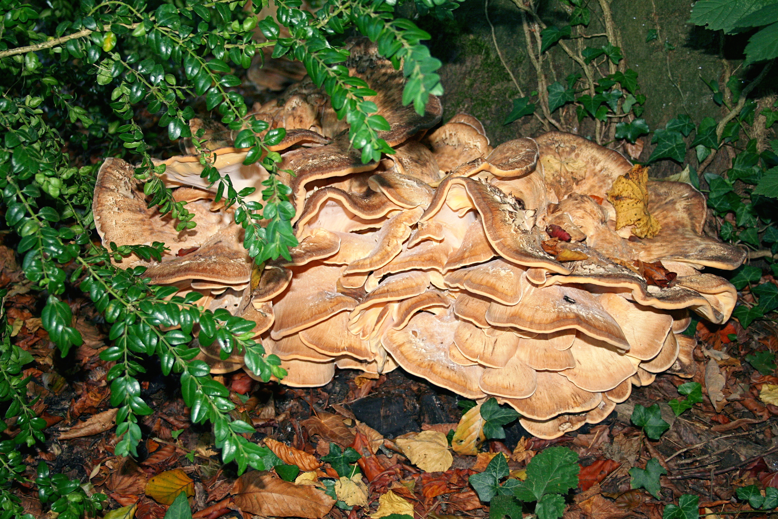 Giant polypore, Houyet, Belgium